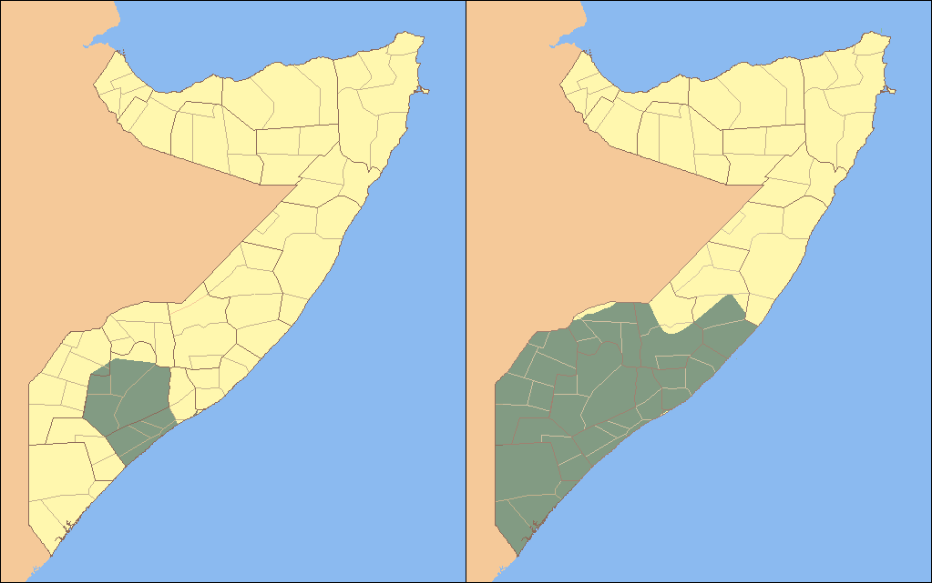 map showing gains made by al-Shabaab since 2009